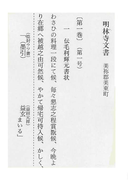 History of Wasabi stored in Myorin temple in Japan. Mr. Mōri Terumoto was a king of samurai in Chōshū domain. He was invited some dinner by Motonaga Masuda who was a king of samurai.He said as follows; Dinner with wasabi was very good taste. I am very happy because Mr. Masuda is always kind. I will go back to my home domain.